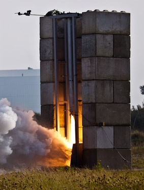 Static test of the HATV by Copenhagen Suborbitals